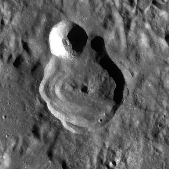 Golitsyn crater, on the far side of the moon. Mosaic of LRO WAC images. Aspect ratio adjusted from Mercator Projection.